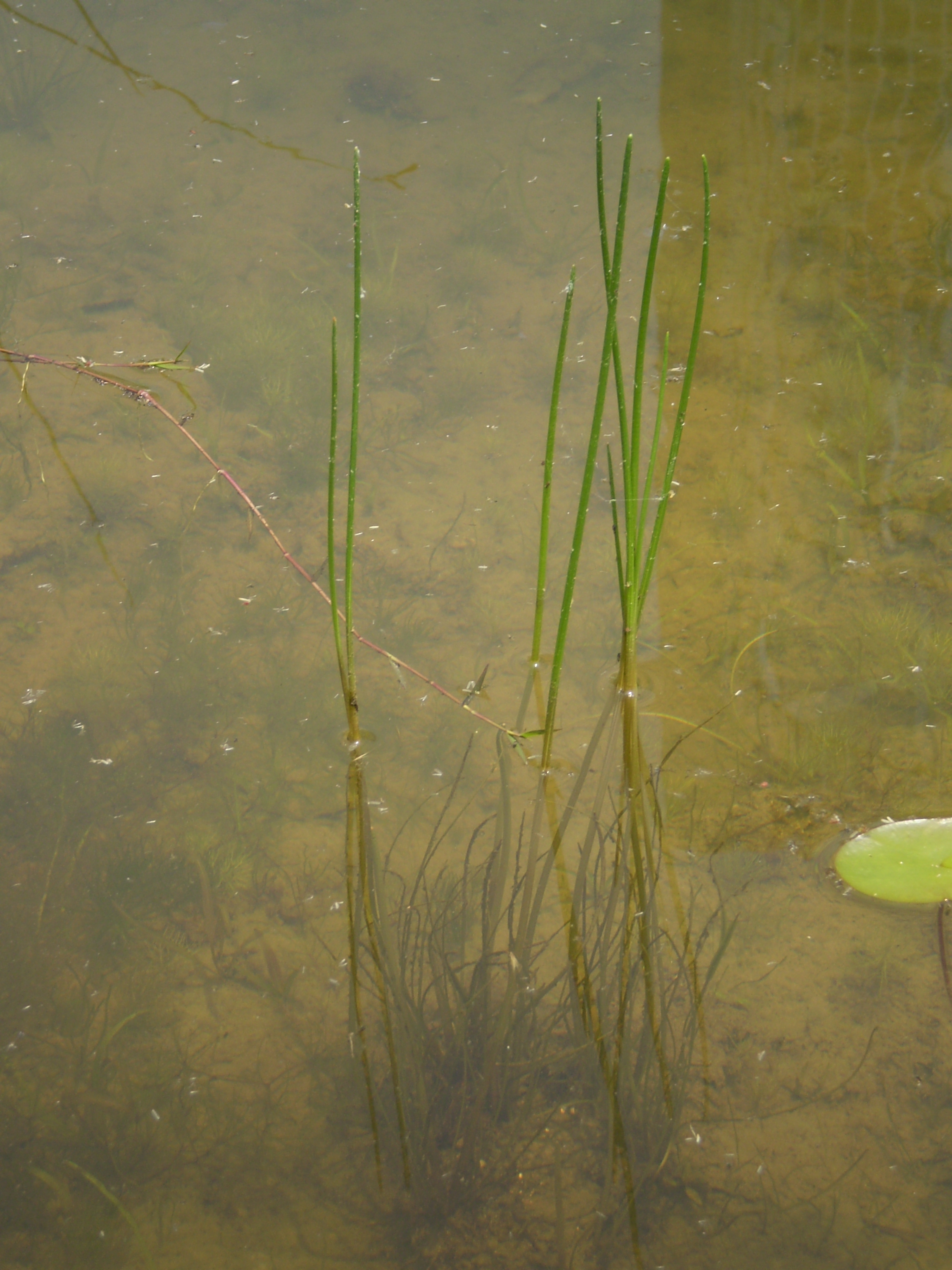 Eleocharis kuroguwai Ohwi